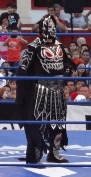 La Parka Negra at Rey de Reyes (2013). Cropped from File:La-Parka-Negra.JPG.